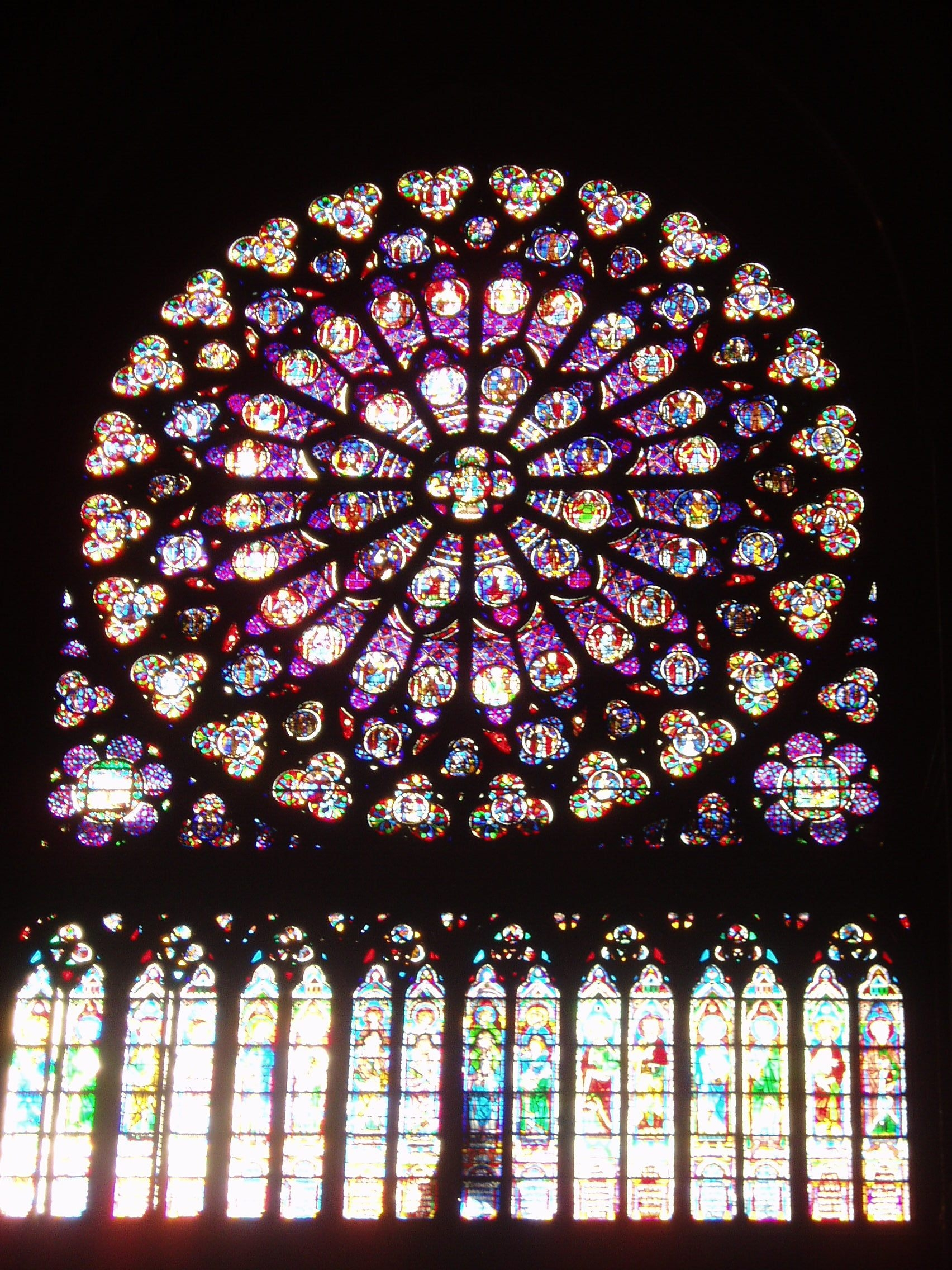 Internal view of the large window Notre Dame, Paris. picture taken on 27.11.2005